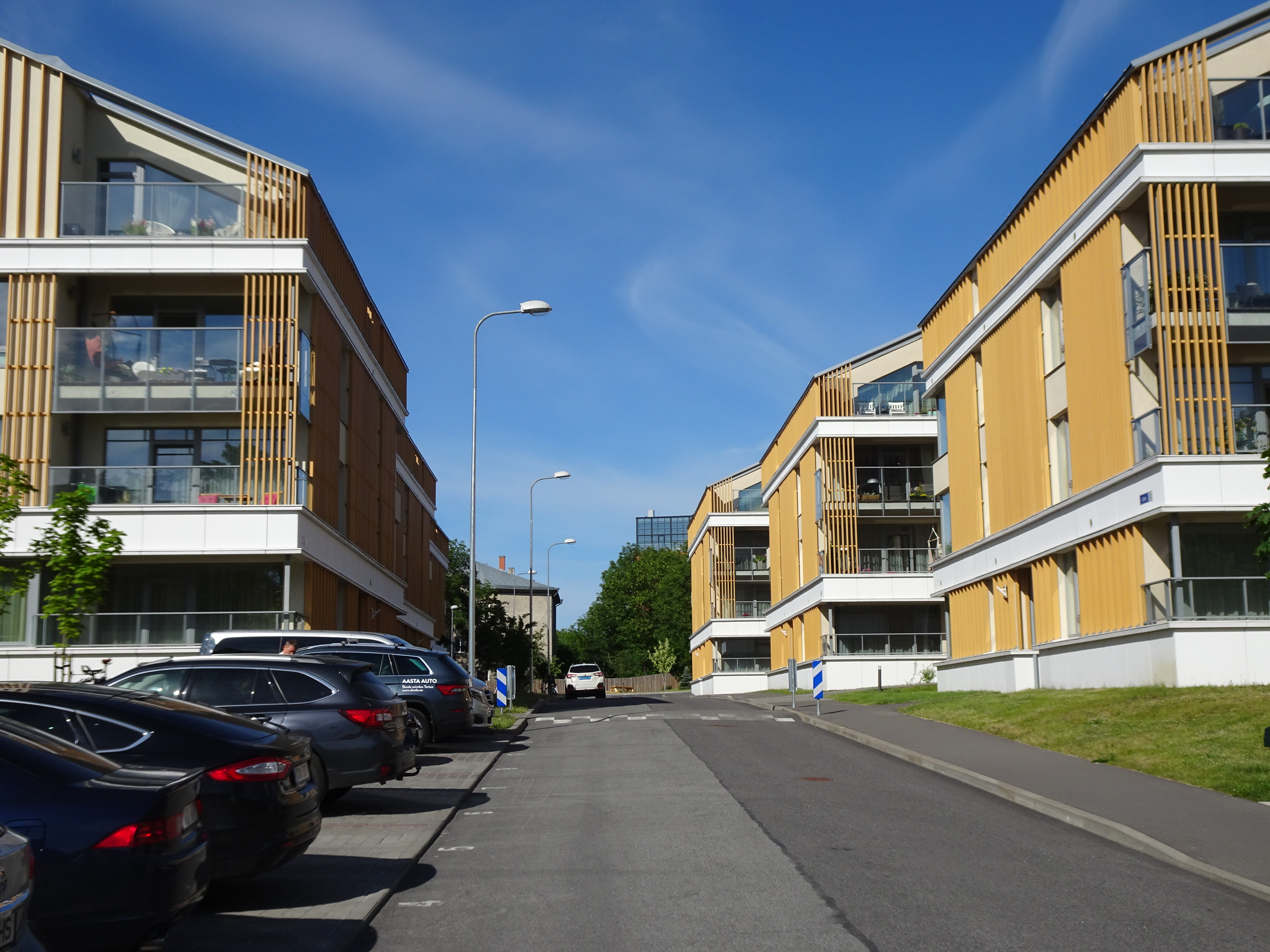 Lible Street in Tallinn, Estonia